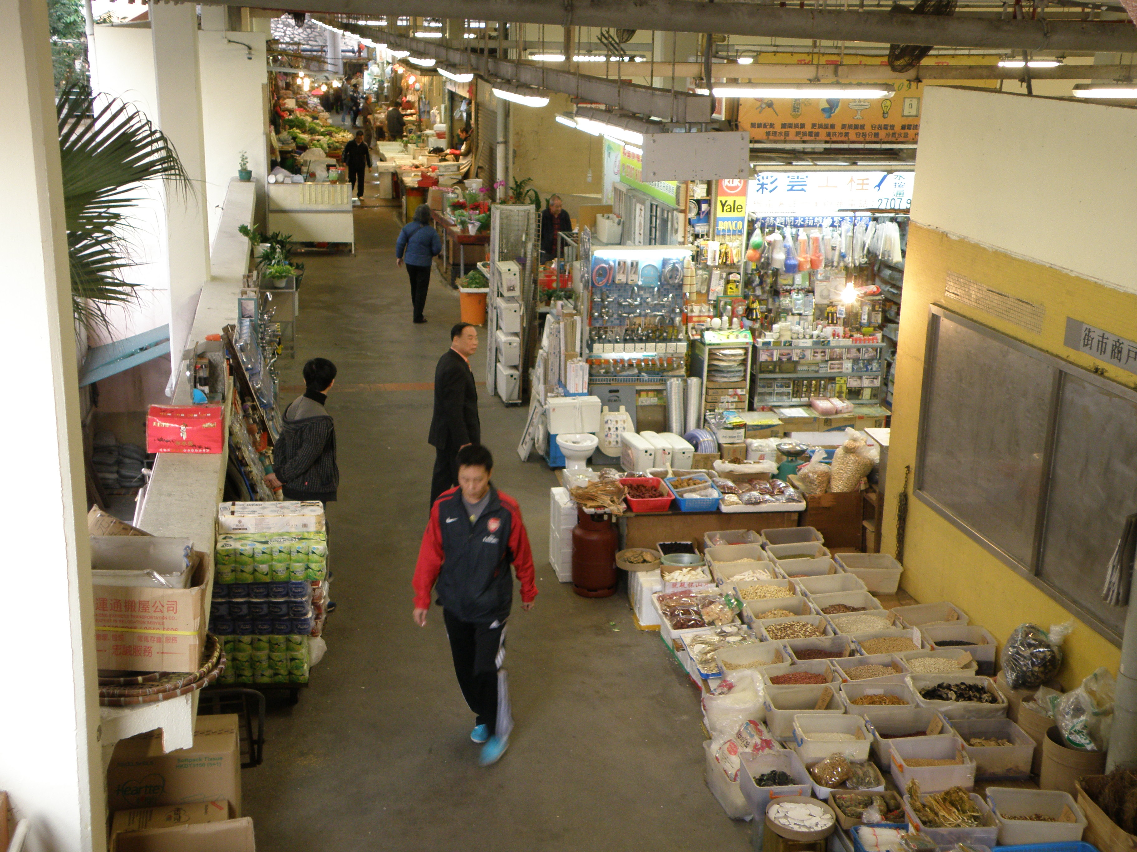 Choi Wan Market in Ngau Chi Wan, Hong Kong.